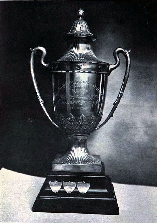 The Presidente de la Nación Argentina trophy, given to the Campeonato Argentino Interligas champion. It was played between 1920 and 1989.